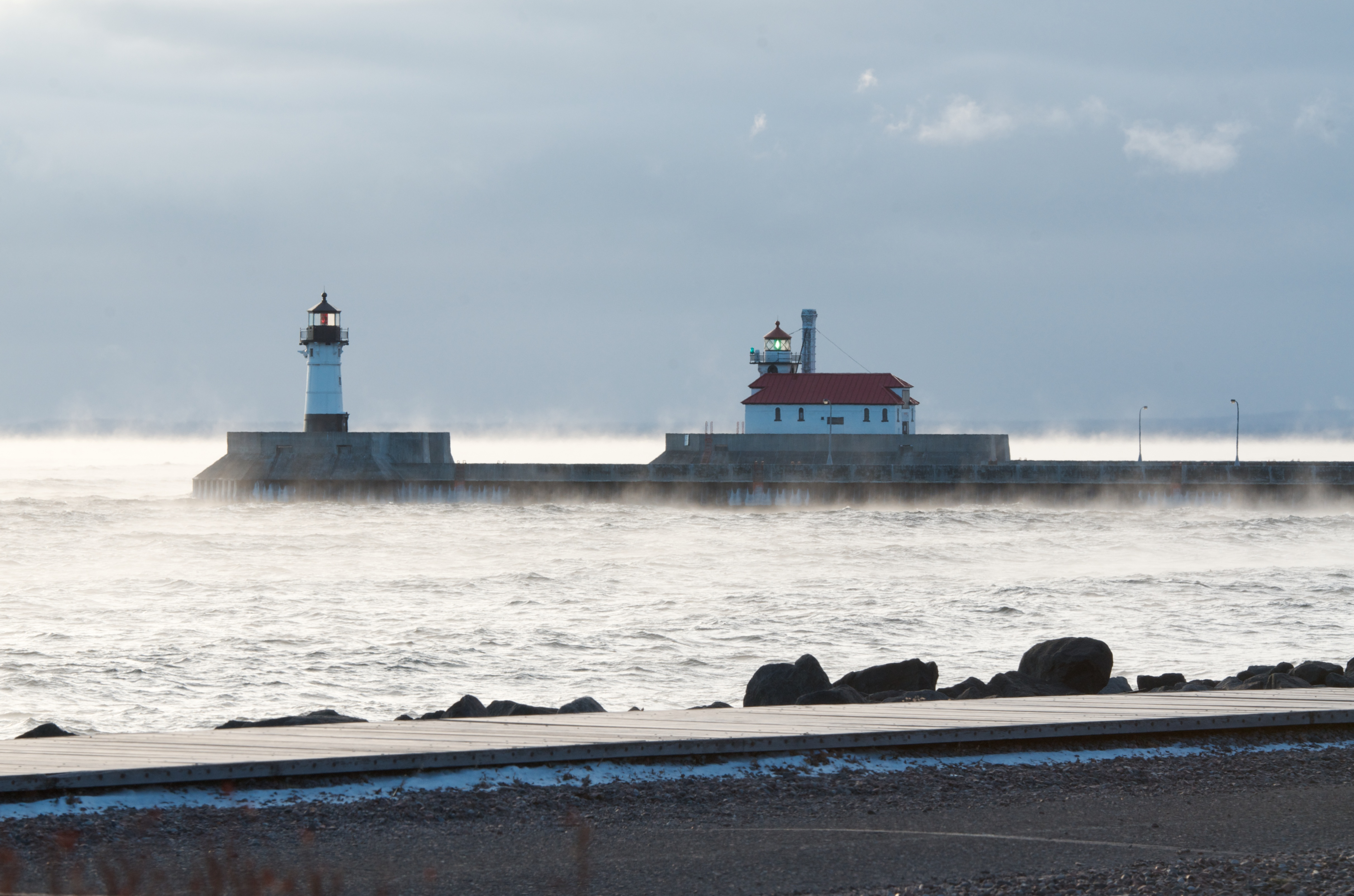 When I got up on Friday morning it was right around 0 degrees in Duluth with a brisk wind coming off the lake. The lake water is still relatively warm because of the wimpy winter we've had in Minnesota. The end result was a pretty scene with sea smoke rising off the water and swirly around the two lighthouses at the end of the piers.